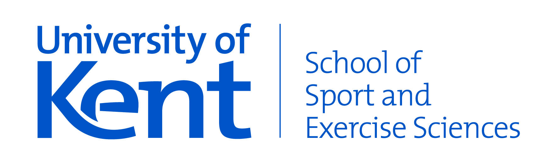 School of Sport and Exercise Science